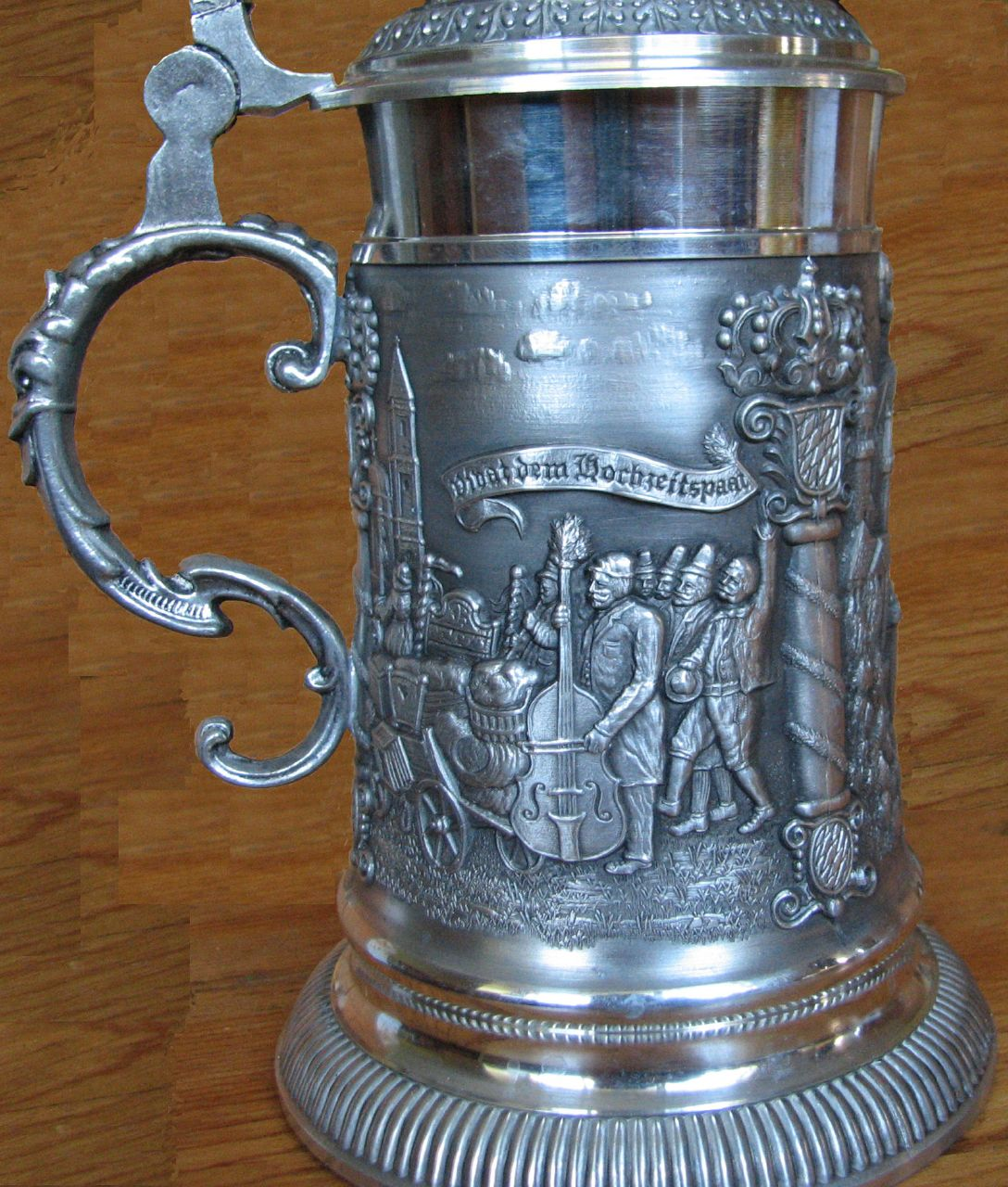 This is the mug Teresa bought for me when she went through Munich.